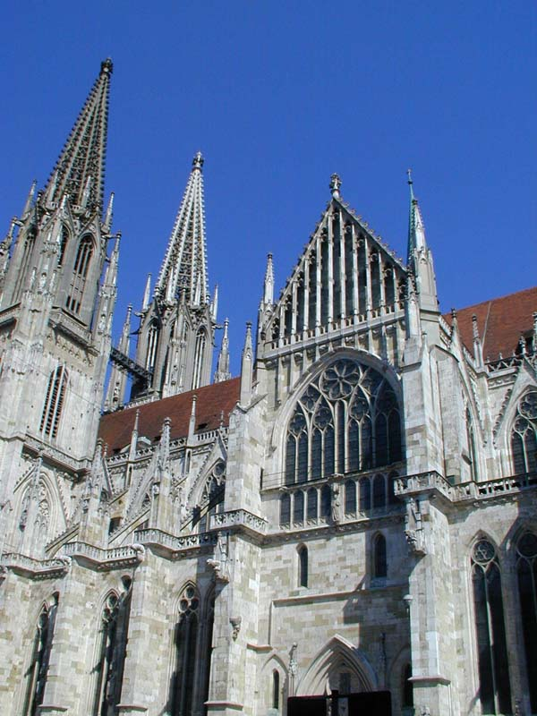 Cathedral of St. Peter, south facade (before the towers were cleaned in 2005).